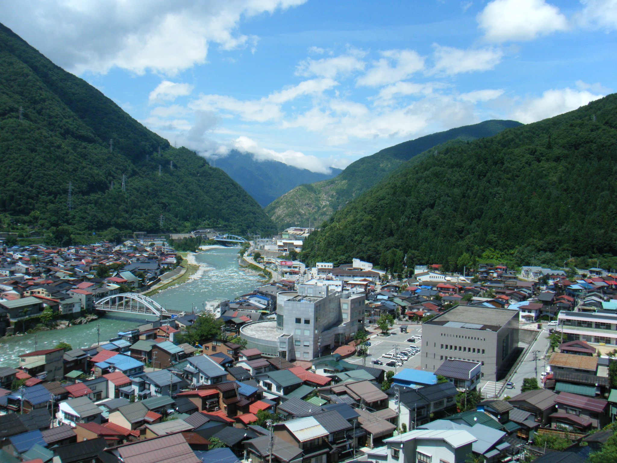 Kamiokakozan